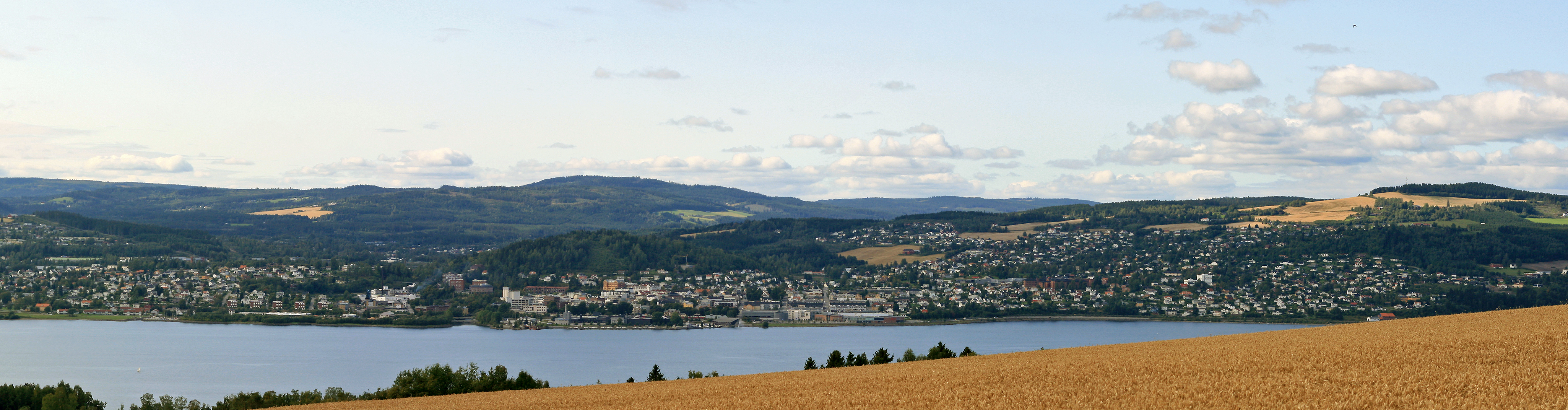 Gjøvik, Norway. Seen across Lake Mjøsa.